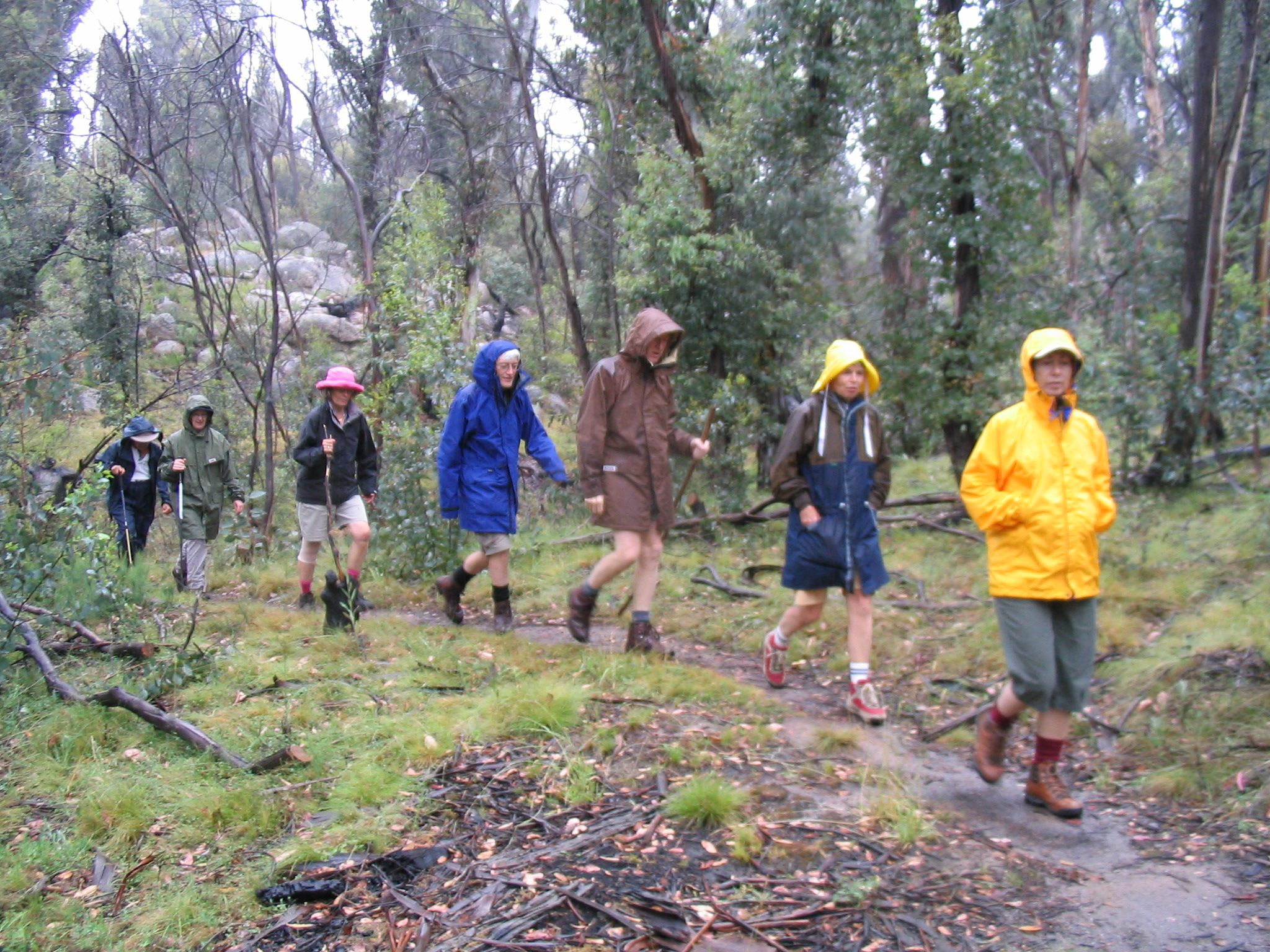 Bushwalking in the rain. Kosciuszko National Park. New South Wales, Australia.